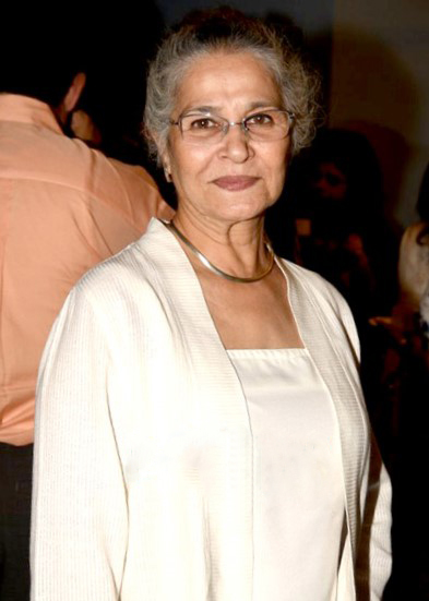 Suhasini Mulay graces the screening of Sonata.